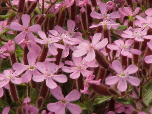 Species: Saponaria ocymoides Family: Caryophyllaceae Image No. 4